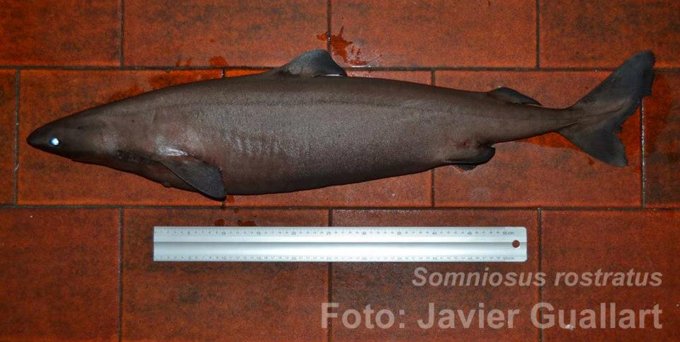 Adult of Somniosus rostratus caught in the Ibiza Channel in 2013